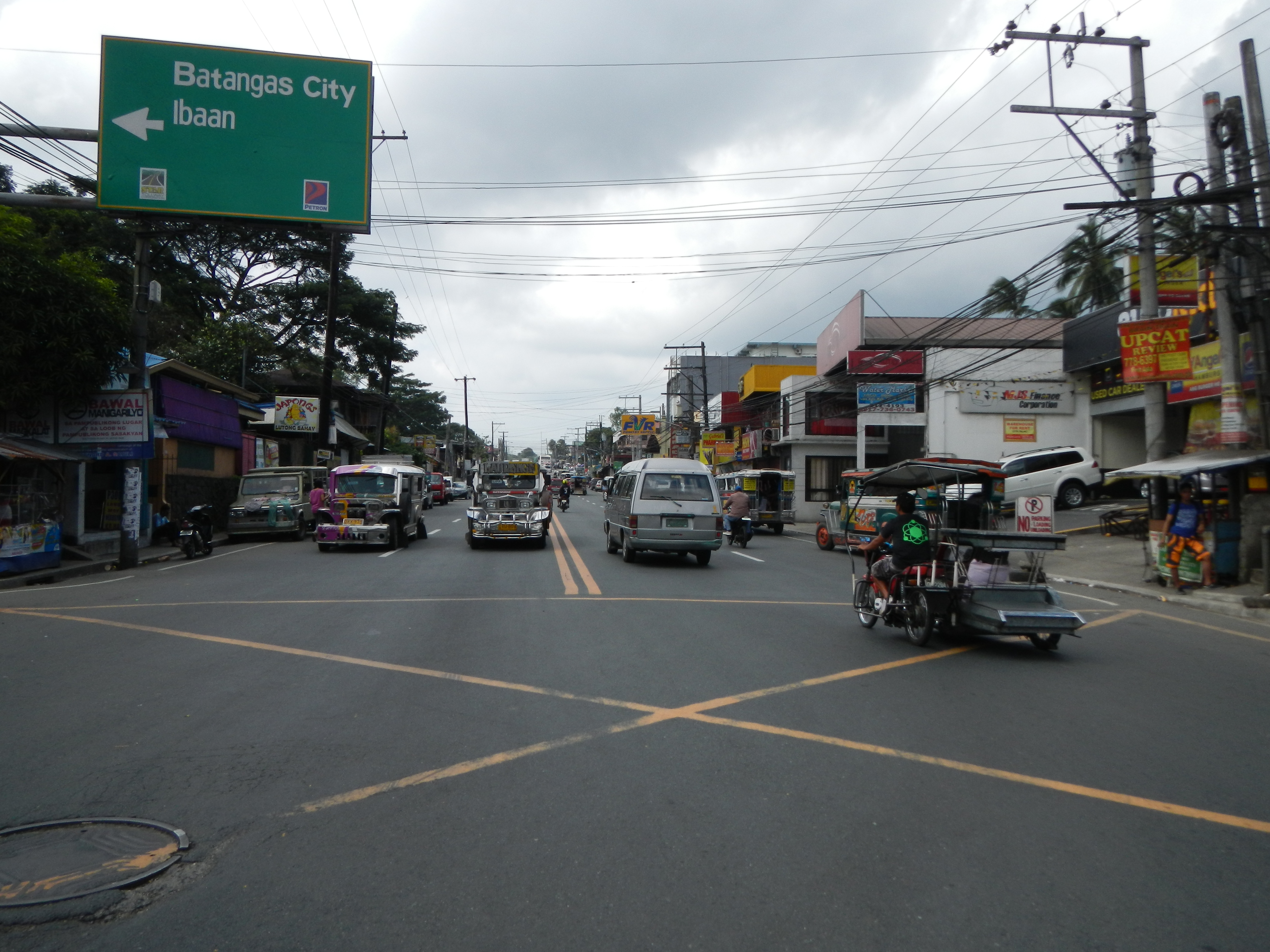 Upload Wizard photos of - Lipa City Barangay Tambo STAR tollway exit, and - the commercial buildings, the Town Proper, Centro, downtown and junction, crossing and Welcome Arch of - of Lemery, Batangas downtown, crossing - downtown - Lemery, Batangas[1] near the 8-kilometer Pansipit River [2] (a short river located in the Batangas province of the Philippines, the sole drainage outlet of Taal Lake, which empties to Balayan Bay. The river stretches about 9 kilometres (5.6 mi) passing along the towns of Agoncillo, Lemery, San Nicolas and Taal serving as border between the communities. It has a very narrow entrance from Taal Lake [3] [4] 13° 53' 48.28" N 120° 54' 46.32" E[5] [6]Coordinates: 13°52'40"N 120°55'2"E [7]13° 55' 37.15" N 120° 56' 46.21" E [8] Summer heat arrives in Lemery, Batangas [9] Batangas tilapia breeders fight for survival).